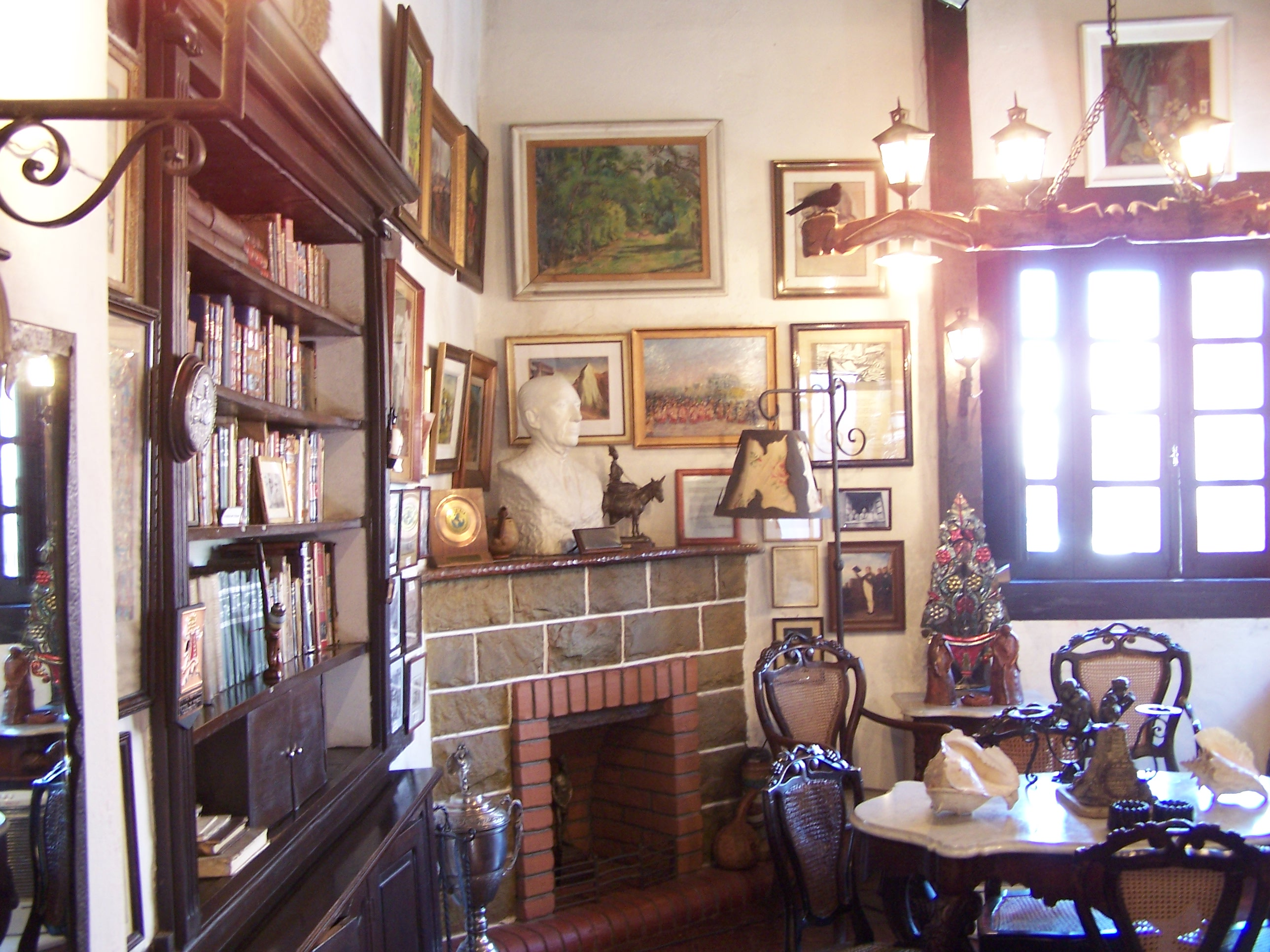 Velarde museum in Salta, Velarde museum in Salta, Salta